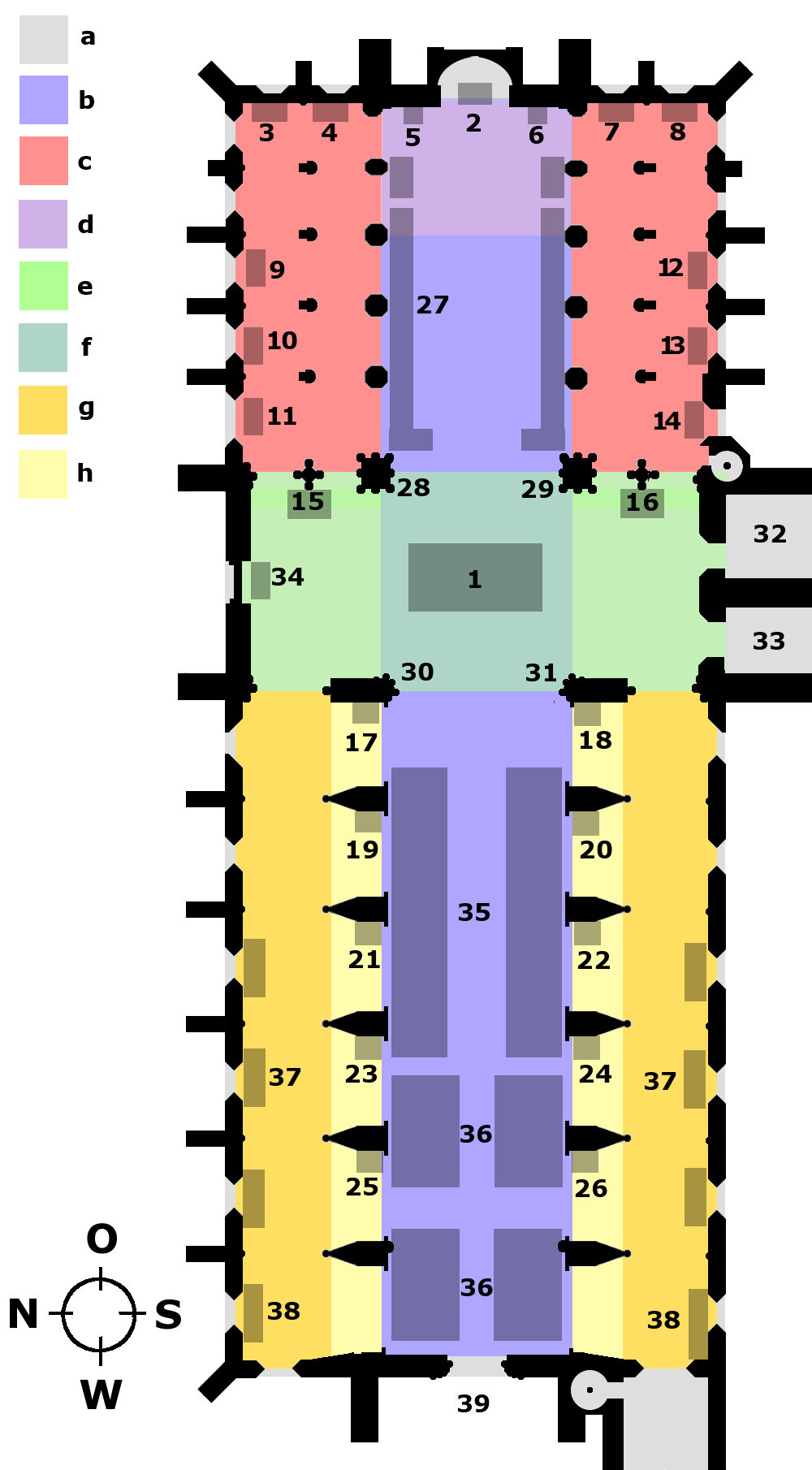 Cathedral of Salem (Germany), floor plan.